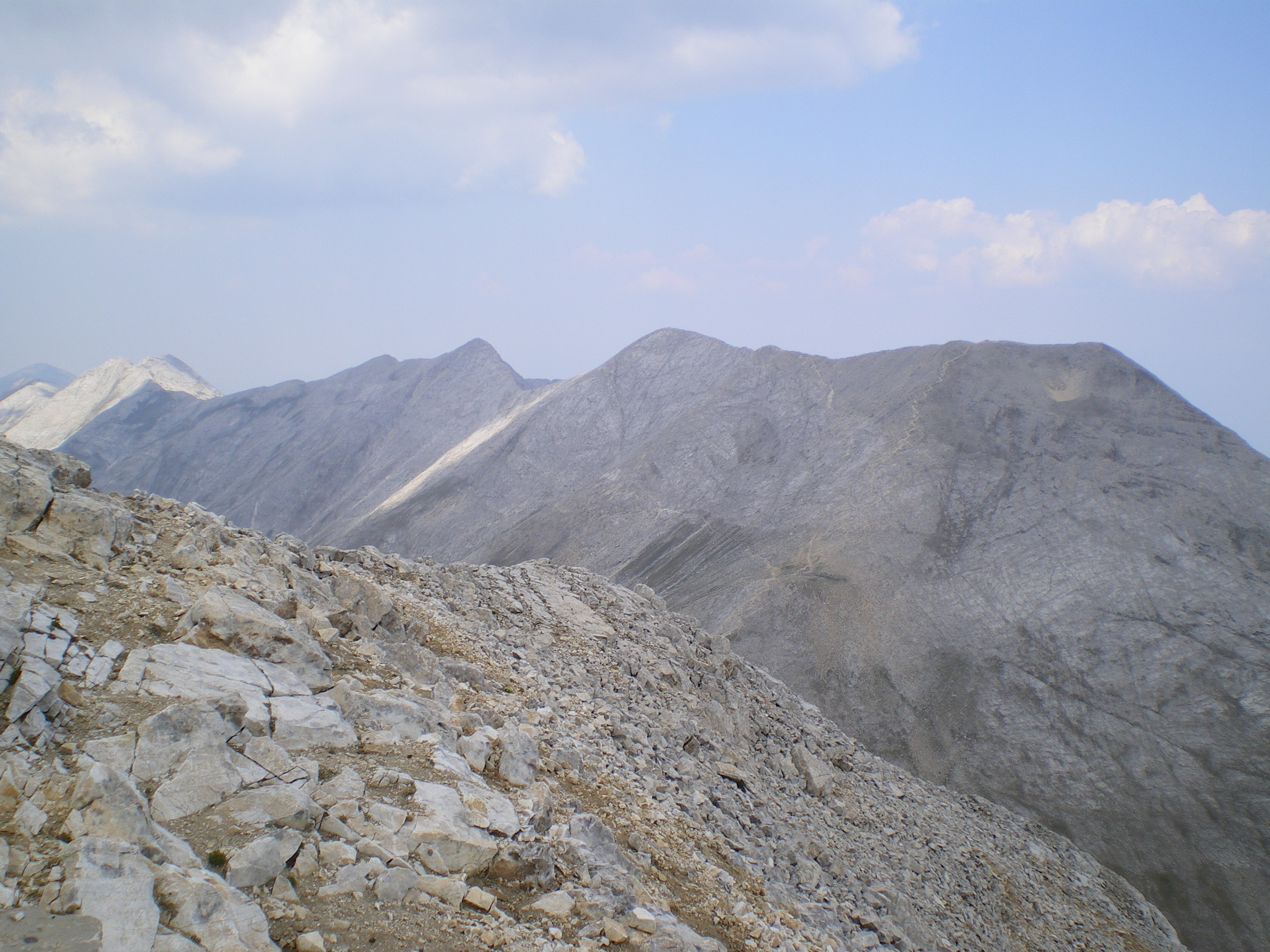 The Marble range in Pirin, Bulgaria